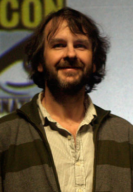 Peter Jackson promoting the 2009 film District 9 at San Diego Comic-Con.